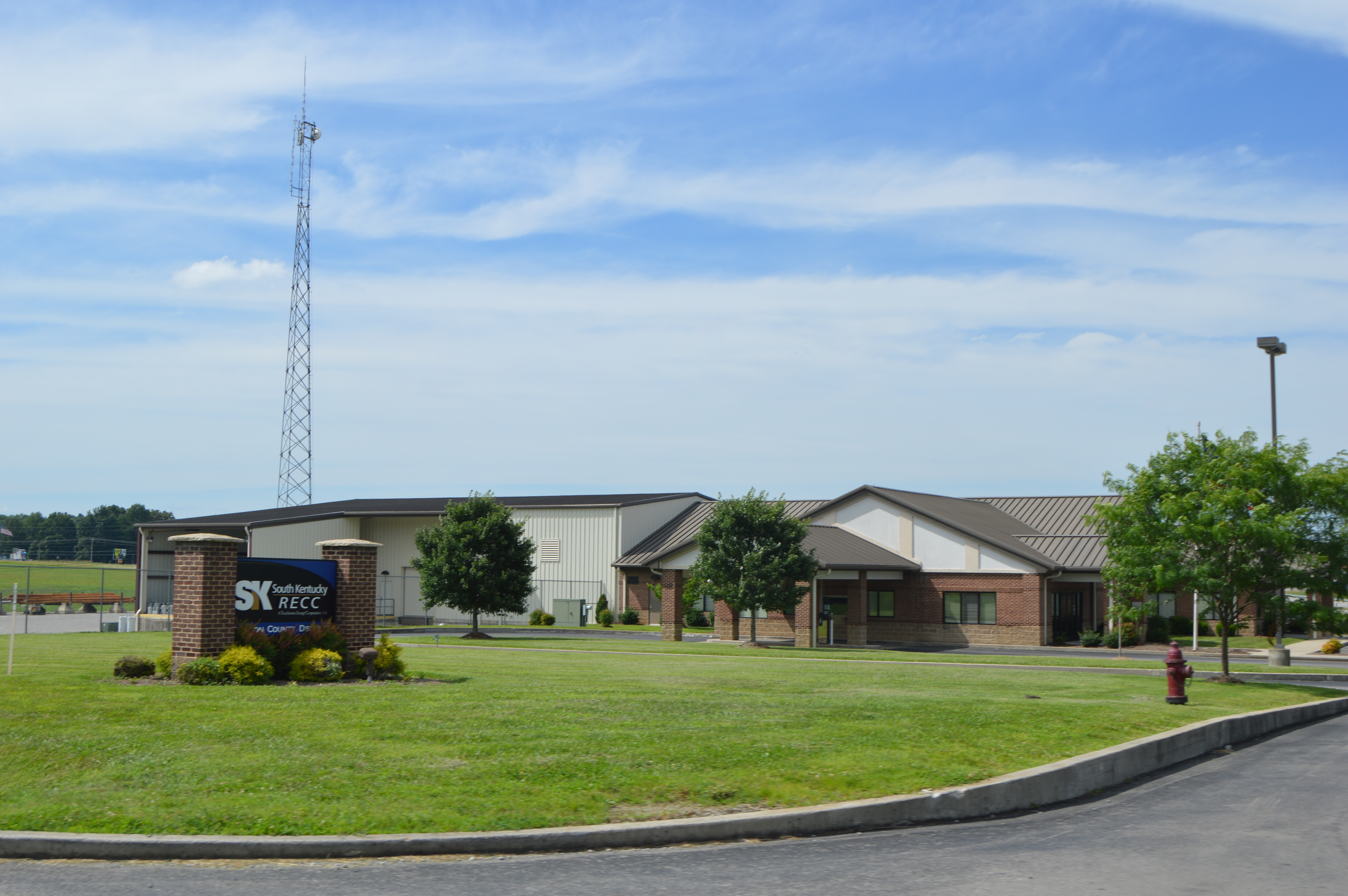 Overview of the offices of a local REMC on Kentucky Route 3156 at the crossroads of Snow, north of Albany in Clinton County, Kentucky, United States.